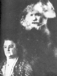 A "Spirit photograph" taken by the Crewe Circle, and the known paranormal hoaxer William Hope. Taken in 1931, this picture shows purportedly shows Mrs Hortense Leverson and the spirit of her deceased husband Major Leverson.